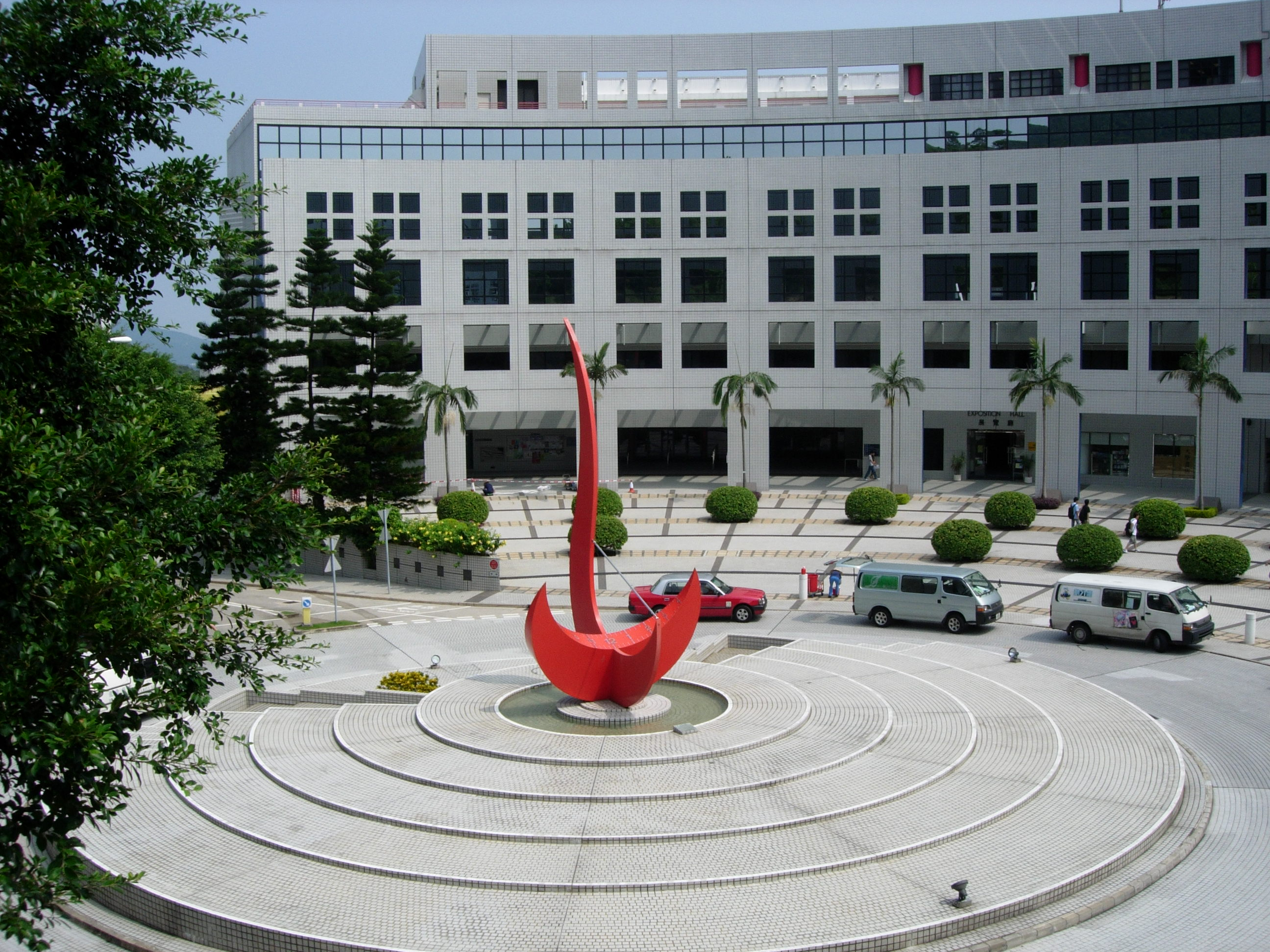 HKUST Sundial